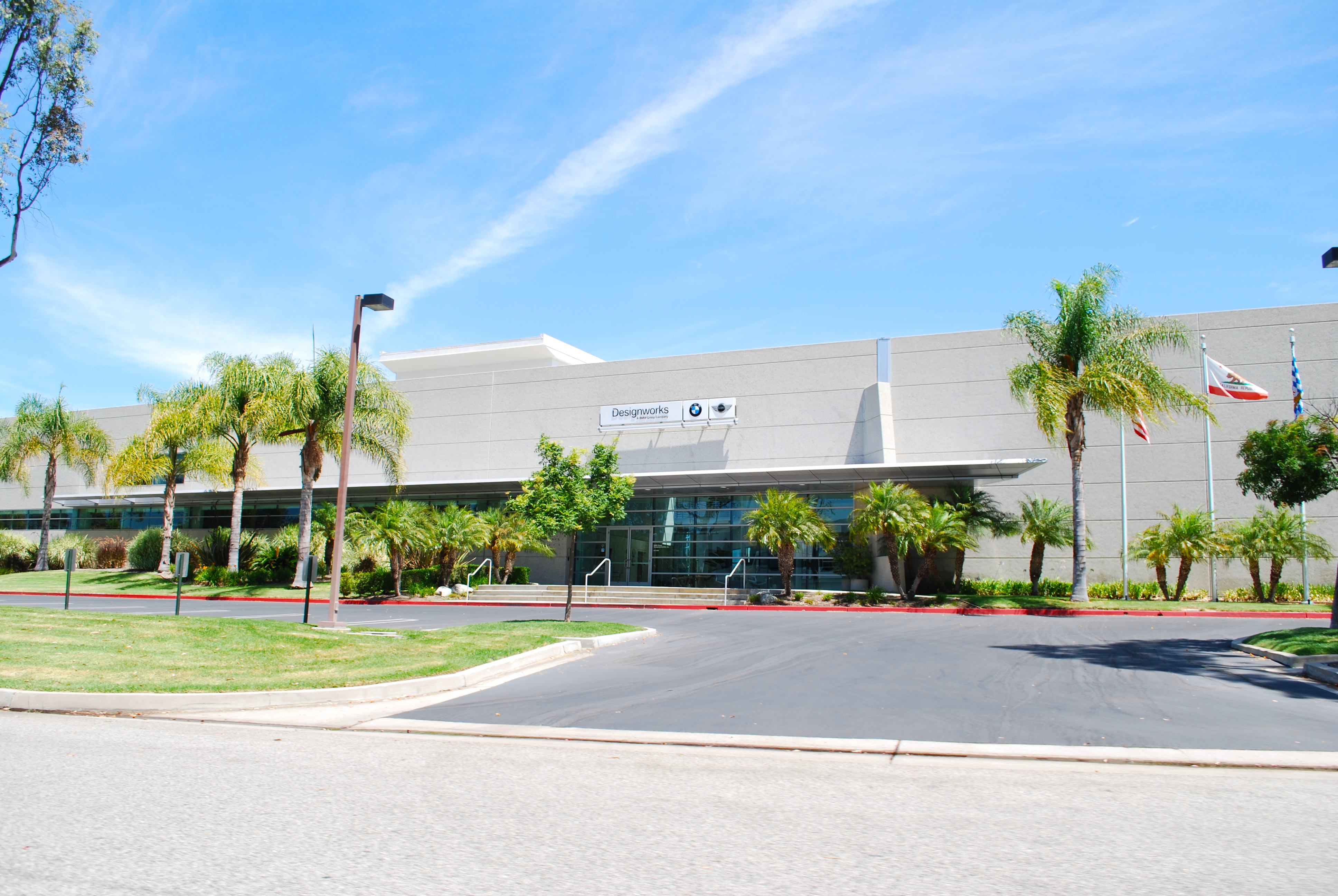 Global headquarters of DesignworksUSA in Newbury Park, CA.